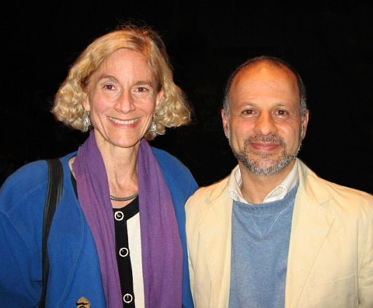 On 28 September 2006 openDemocracy hosted a public dialogue between Iranian dissident Akbar Ganji and the philosopher Martha Nussbaum at the University of Chicago's International House. Here they are together following the event.